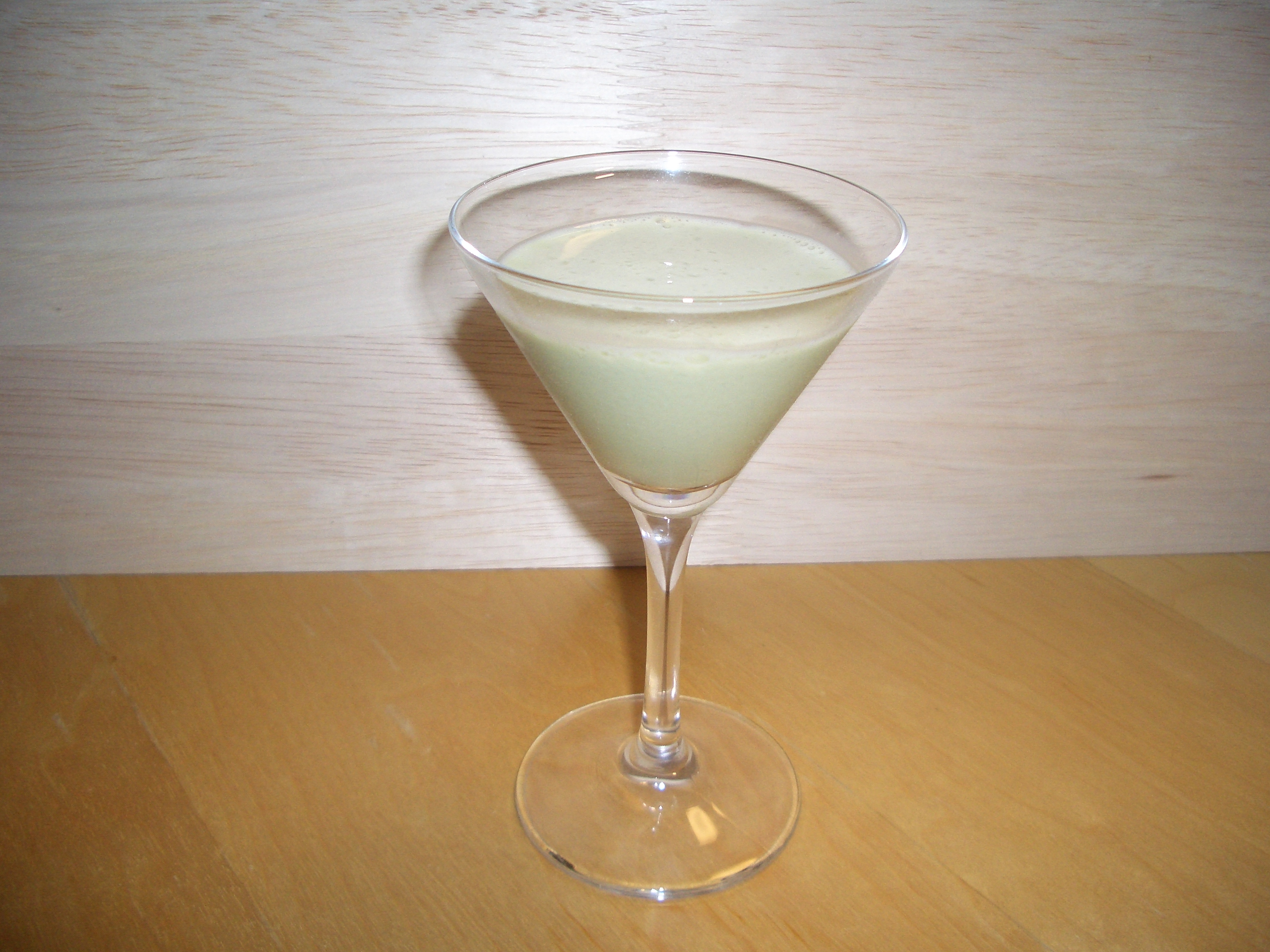 Glasshopper with brown cacao liqueur